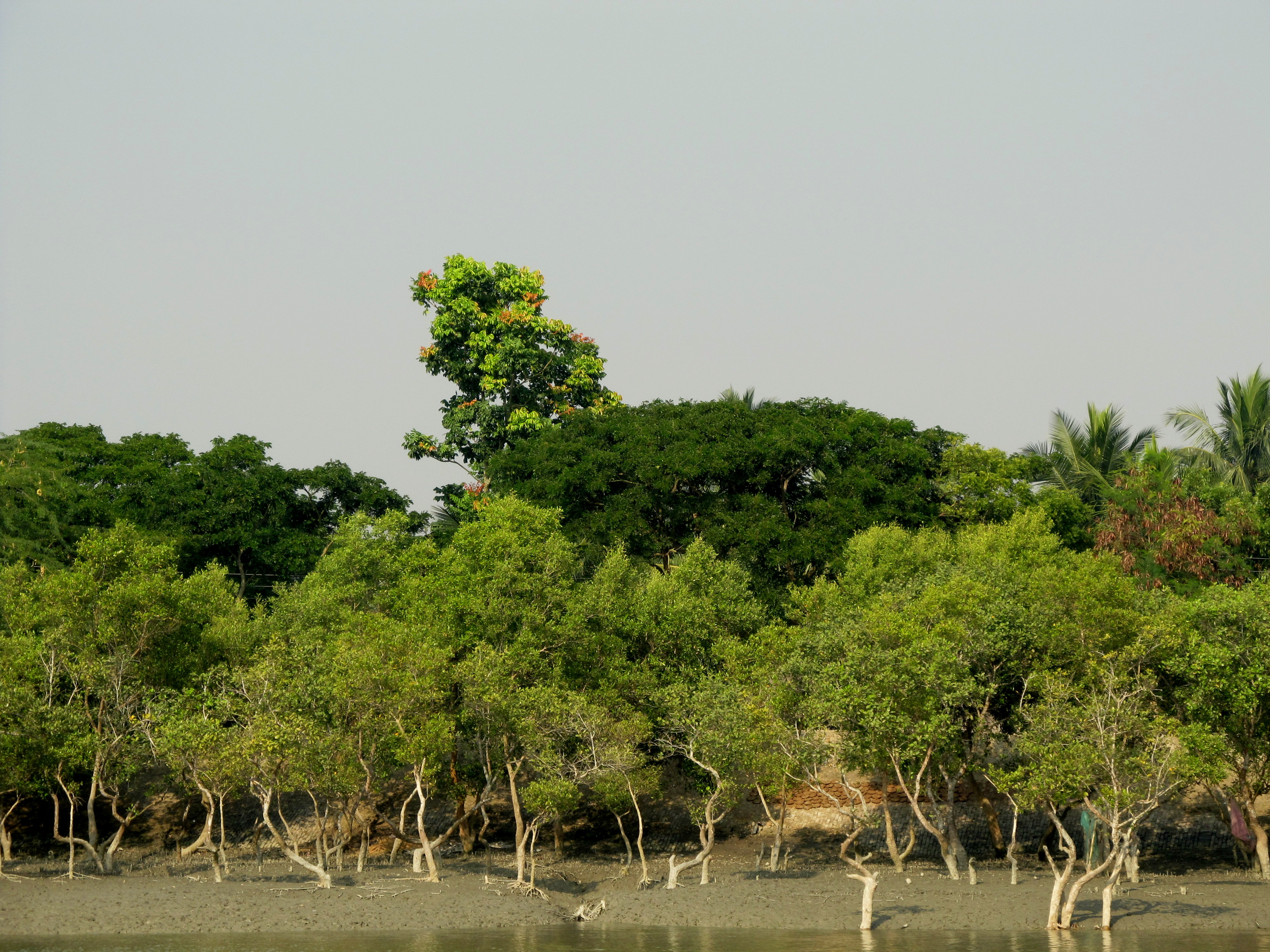 mangroves